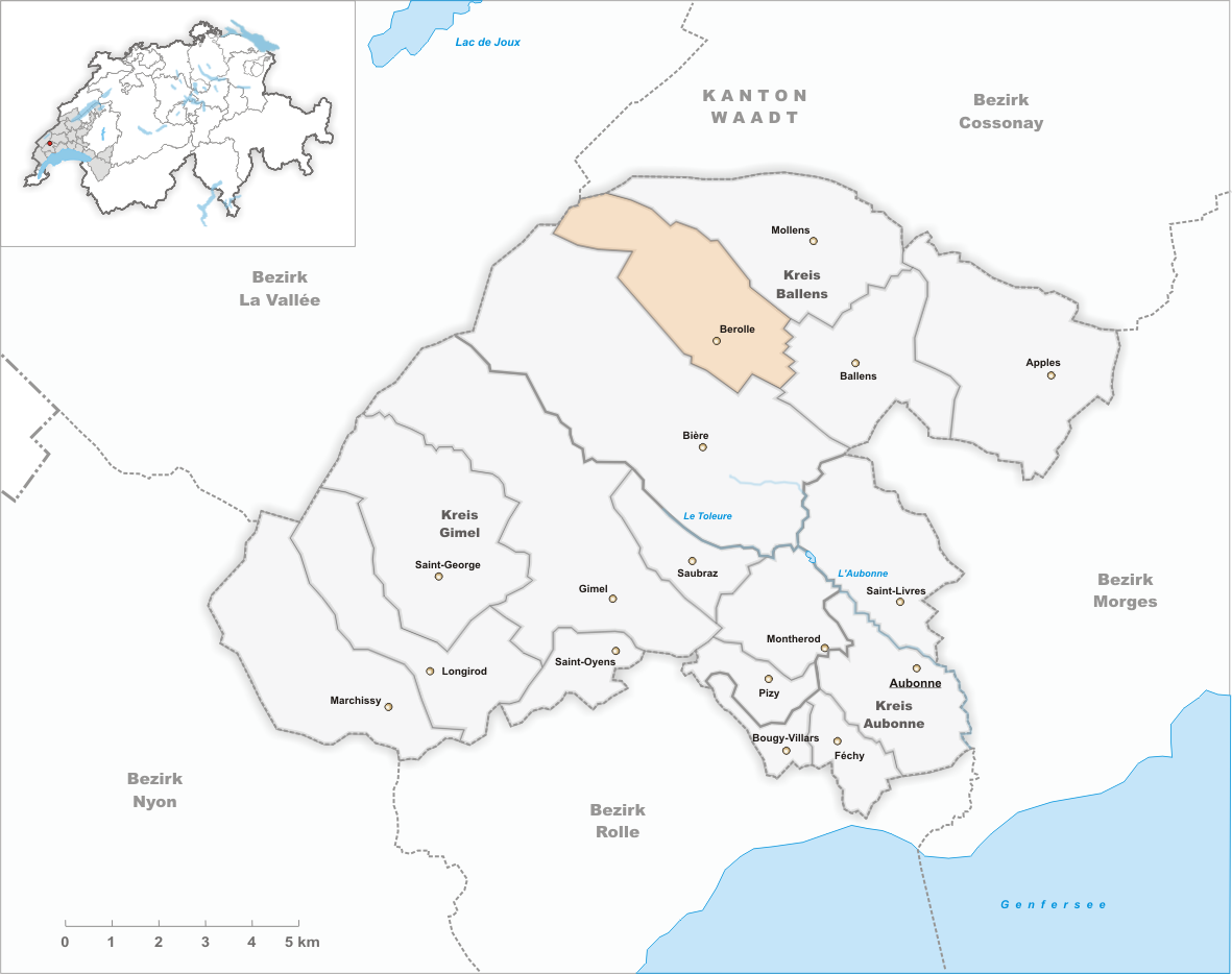 Municipality Berolle